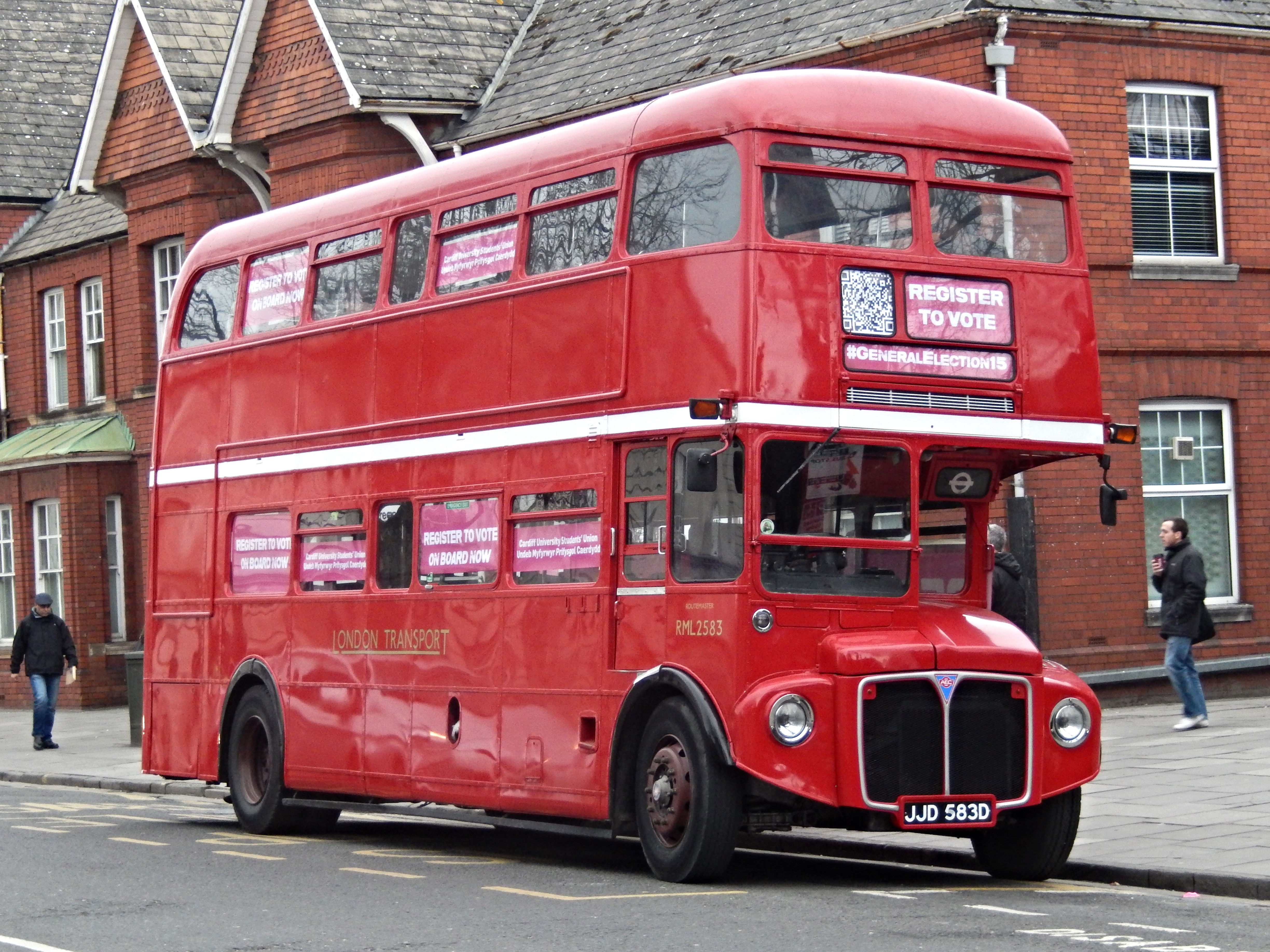 A red Routemaster bus is seen in Cathays, Cardiff, whilst being used to promote the forthcoming 2015 UK General Election in the UK, and encourage students to register to vote. The bus is operated by LondonBus4Hire, and is known as 'Bulgy'. It operated in London for over three decades - its full history can be found at . I was really pleased that the photo made it into the Flickr blog in May 2015, when they asked for #British photos, to mark the birth of the Royal baby Princess Charlottte